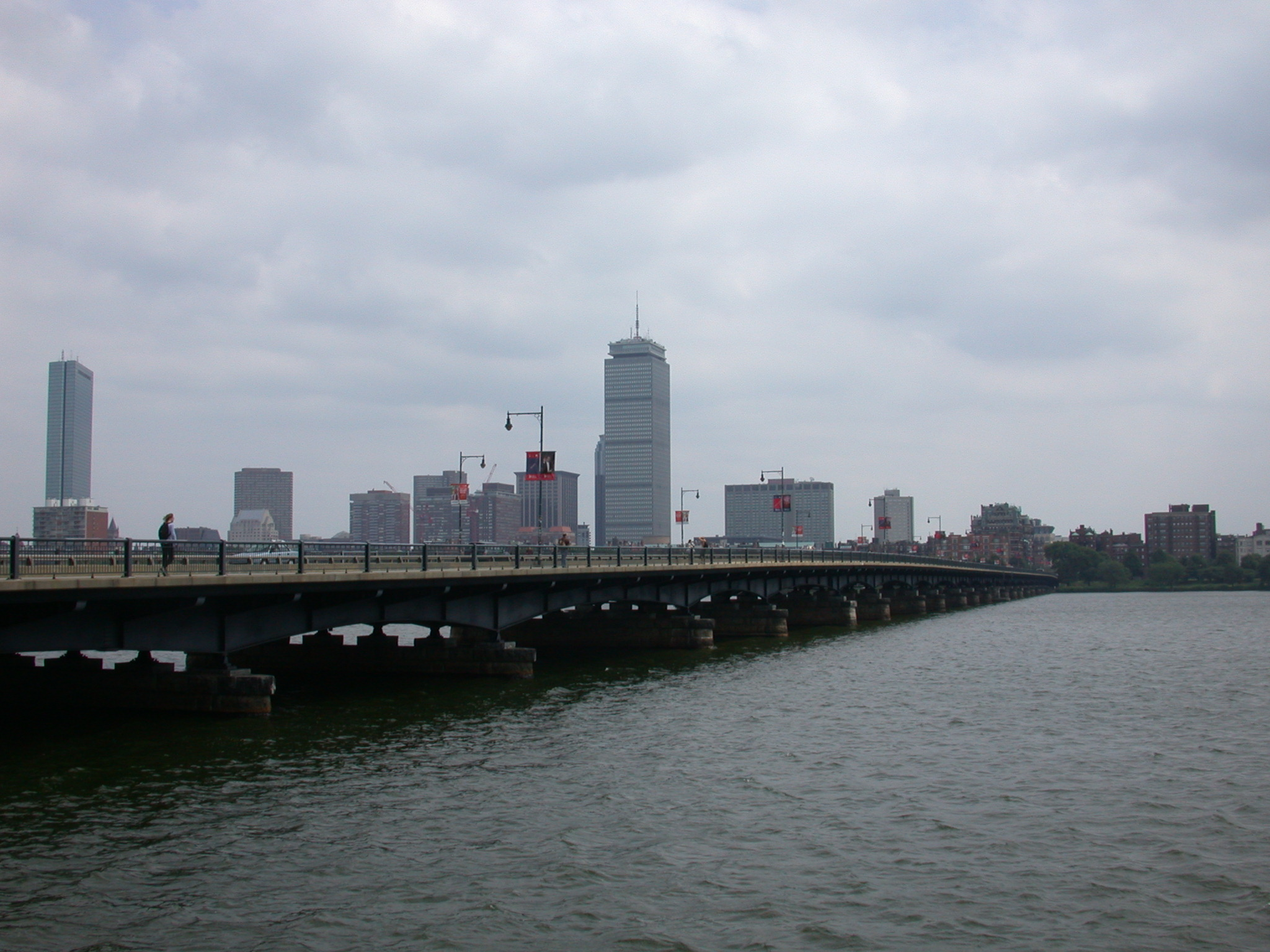 The Mass Ave Bridge